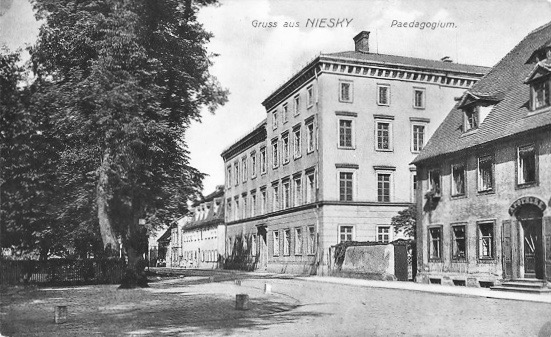 New boarding school building of Herrnhuter Brüdergemeine (= Moravian Church) in Niesky, Upper Lusatia, Germany. The building was inaugurated in 1865 and replaced its precursor (today: City library of Niesky). The new building was used until its destruction 1945 in WWII.